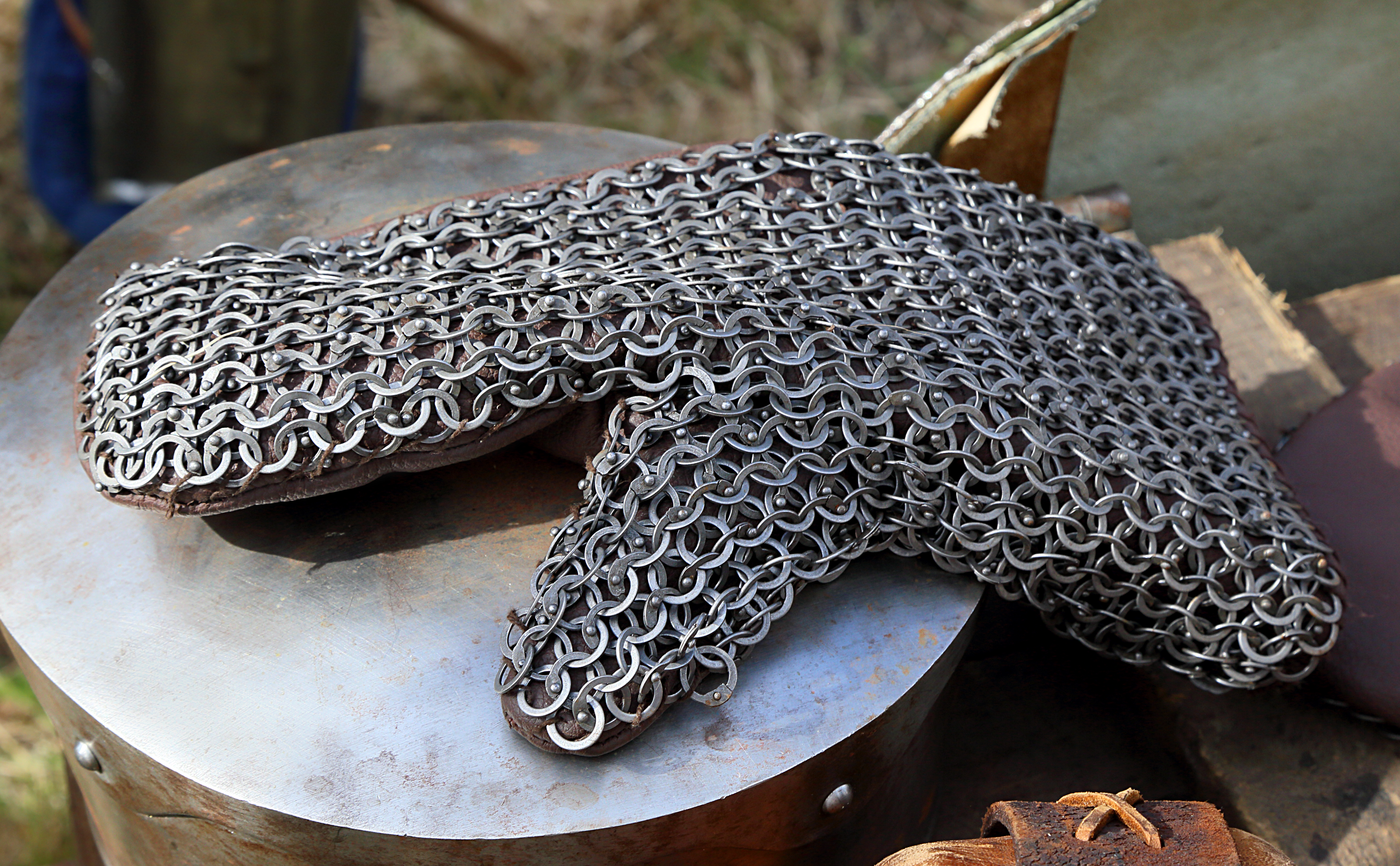 Leather mitten with chainmail, picture taken in Wattrelos, France.